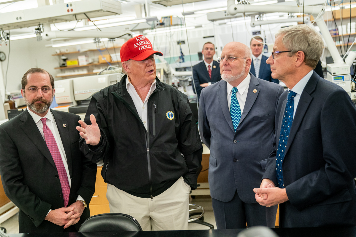 President Donald J. Trump, joined by the Secretary of Health and Human Services Alex Azar, left, Dr. Robert R. Redfield, director of Centers for Disease Control and Prevention and Dr. Stephan Monroe, associate director of the CDC, right, speaks with reporters during a visit to the Centers for Disease Control and Prevention Friday, March 6, 2020, in Atlanta. (Official White House Photo by Shealah Craighead)